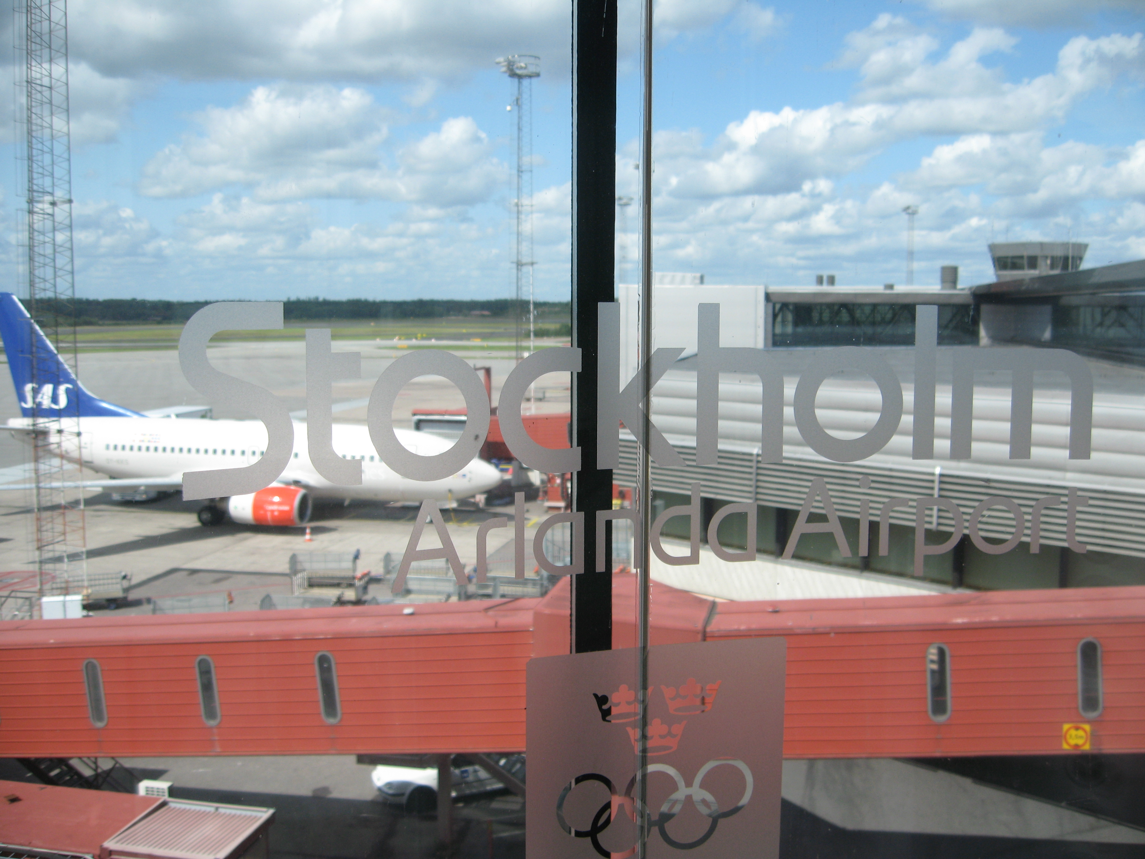 Stockholm Arlanda Airport.